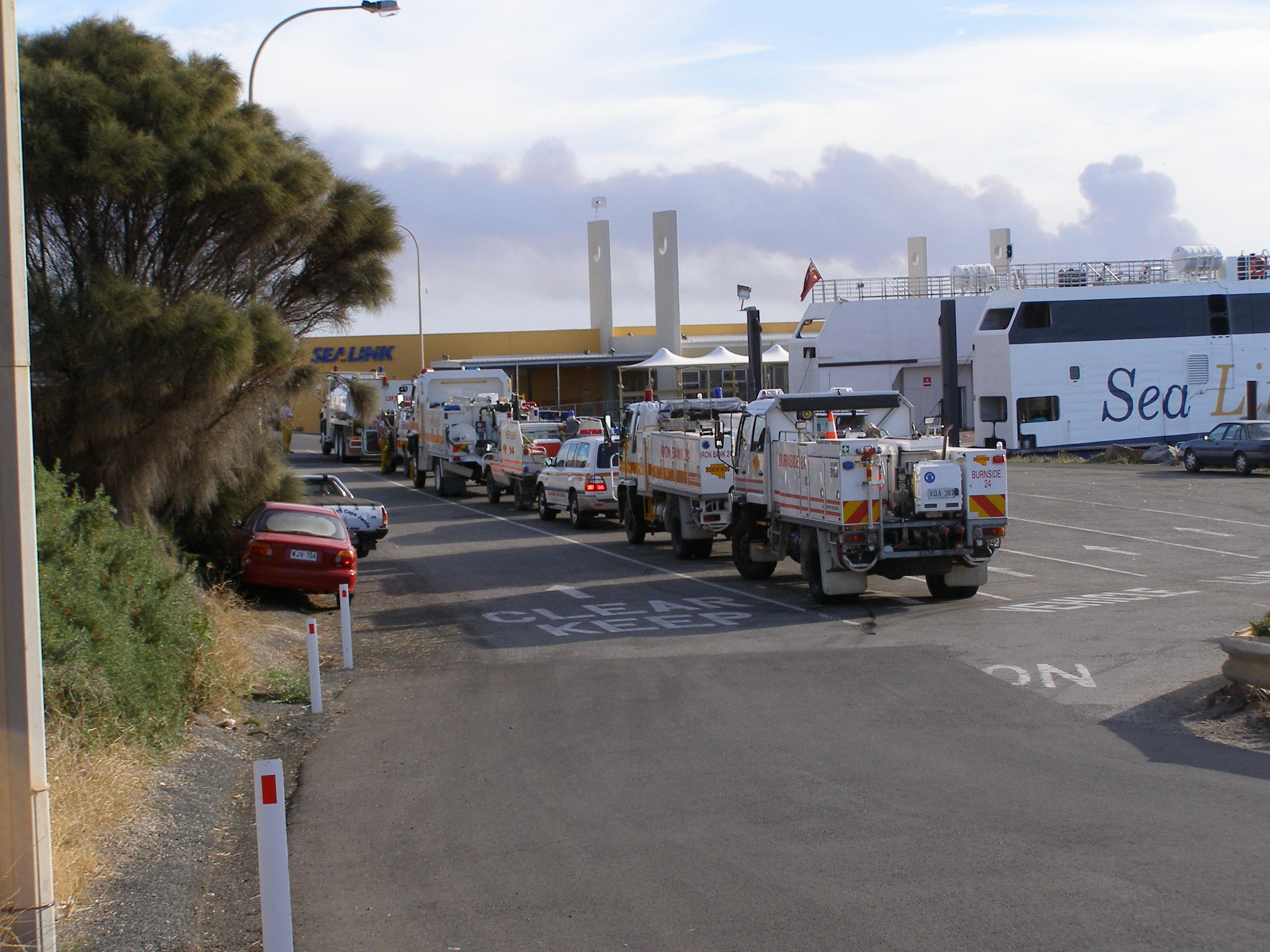 author, user fire at kangaroo island 2006 strike team waiting to cross water